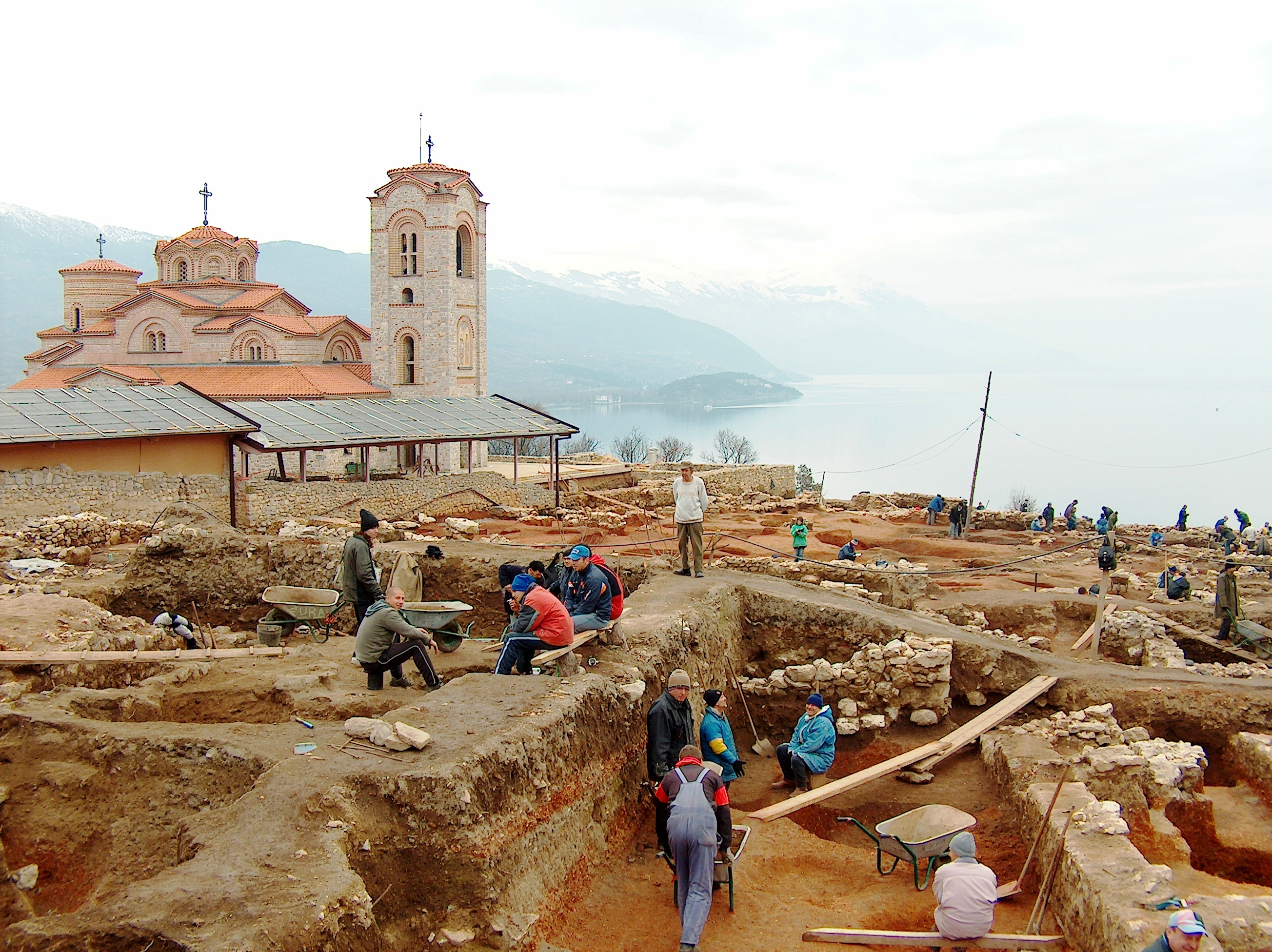 Archeological excavations at Plaoshnik site in Ohrid, Republic of Macedonia; St. Panteleymon's Church on the left, and Ohrid Lake in the background.